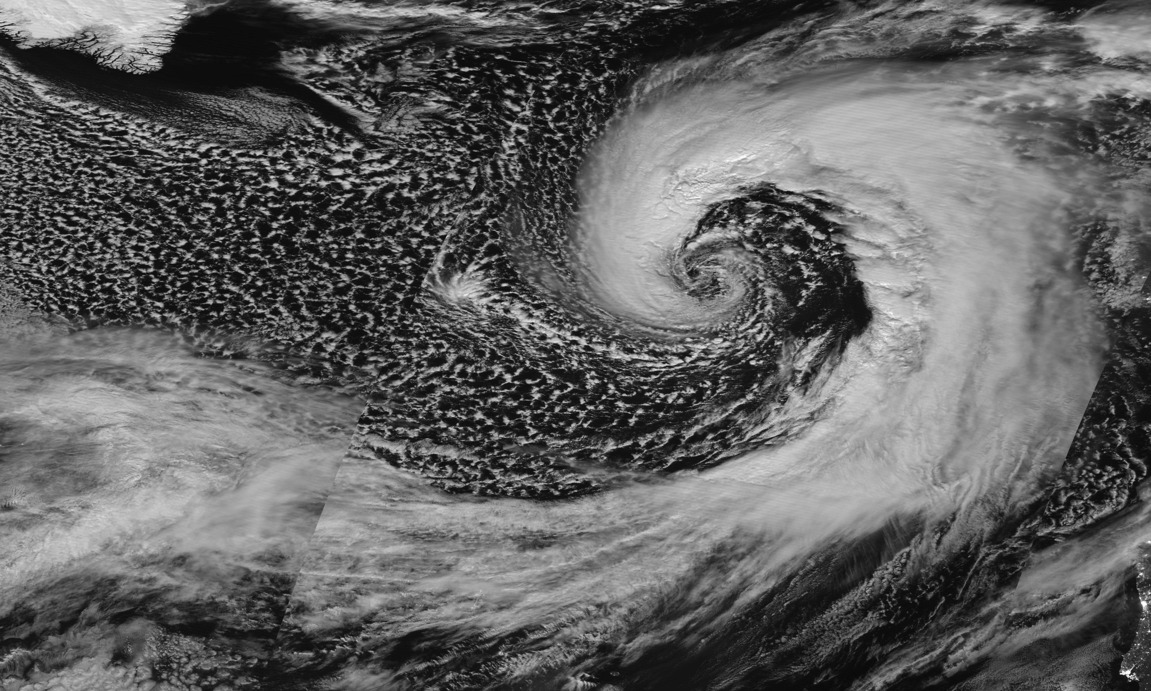 Storm Brendan, of the 2019-20 European windstorm storm season, above the Atlantic Ocean.